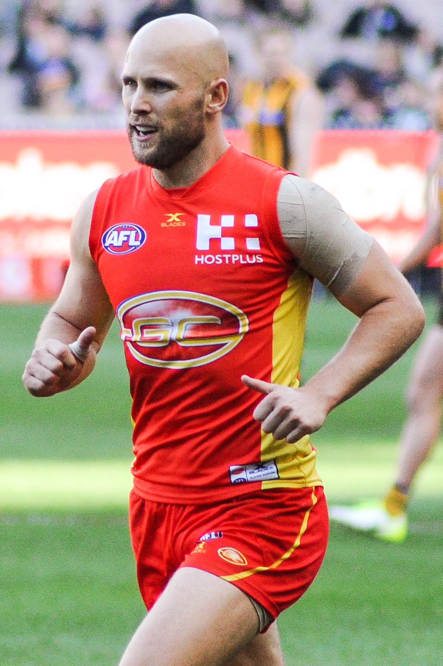 Gary Ablett during the AFL round twelve match between Melbourne and Collingwood on 10 June 2017 at the Melbourne Cricket Ground in Melbourne, Victoria.